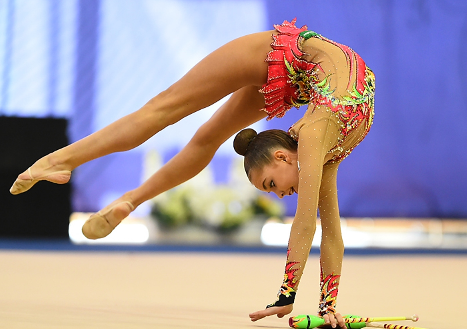 Russian rhythmic gymnast Dina Averina in 2017